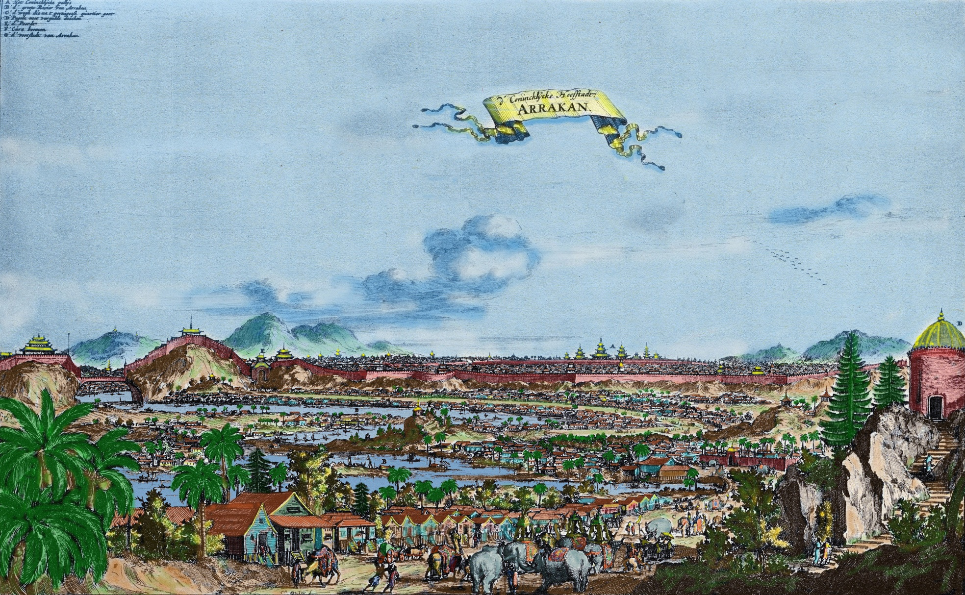 View of Mrauk-U in the XVII century: The first plan for the Portuguese settlement